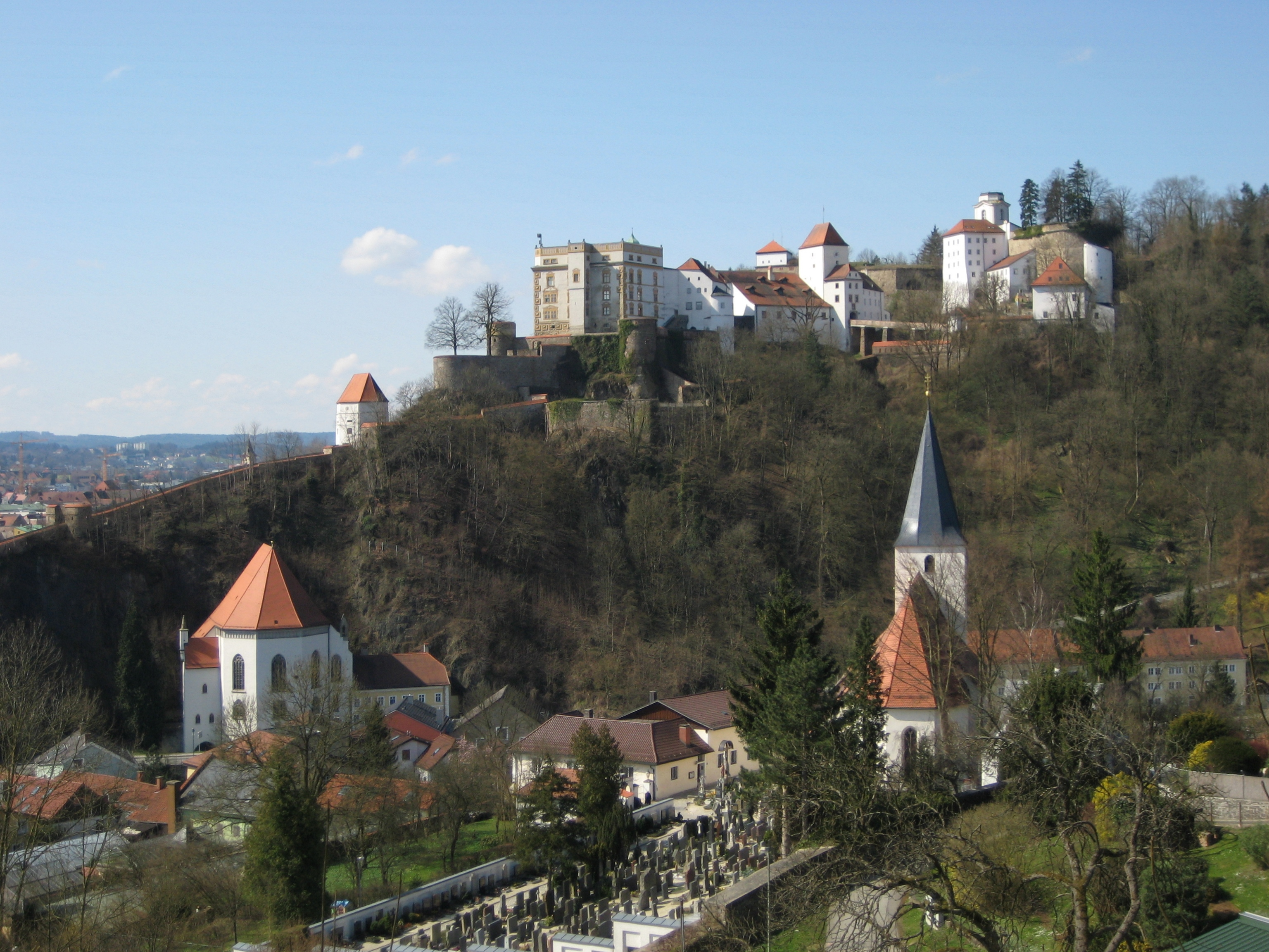 Passau, north-eastern view of Veste Oberhaus